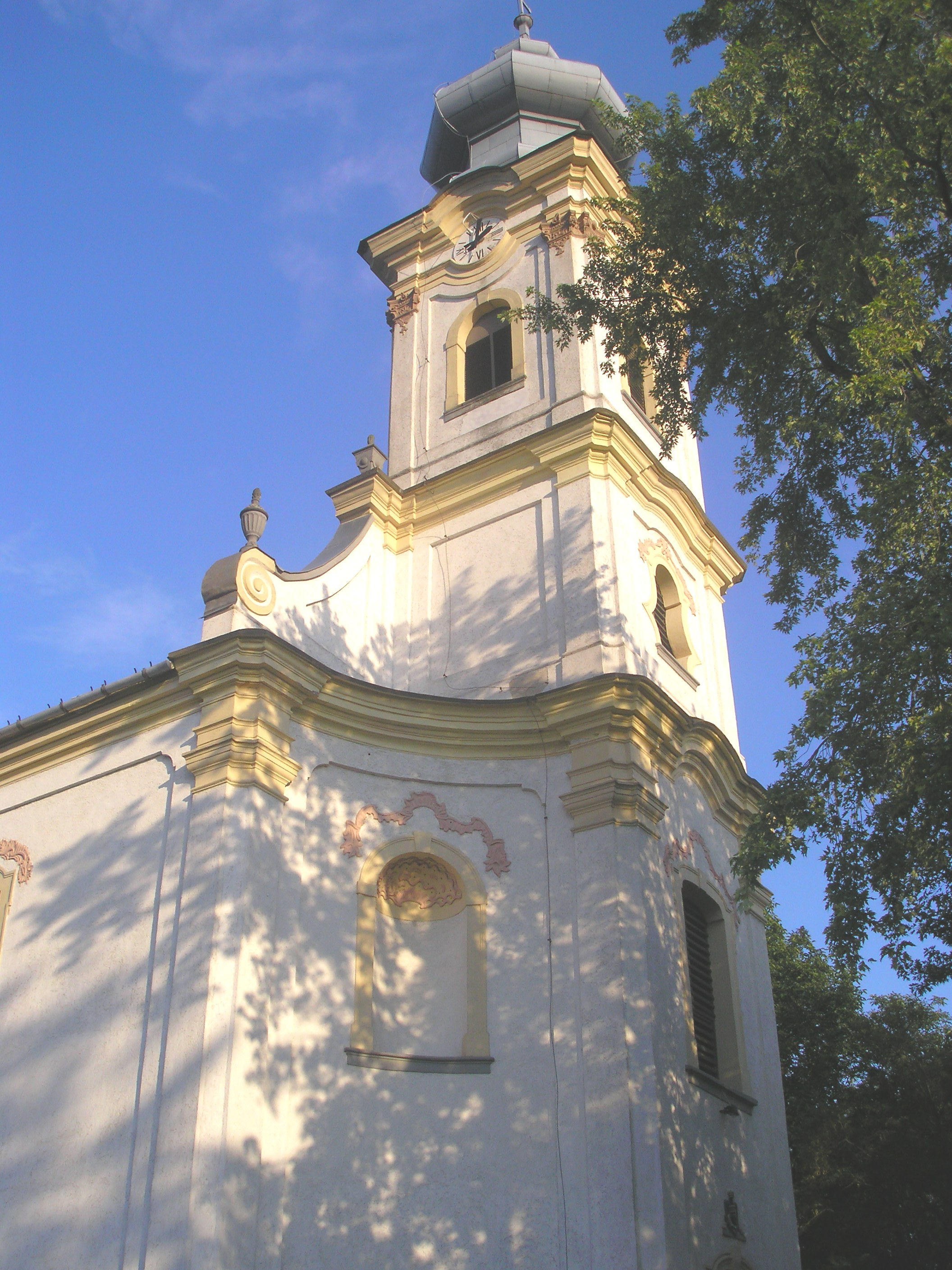 Roman Catholic church in Boldogkőváralja, Hungary